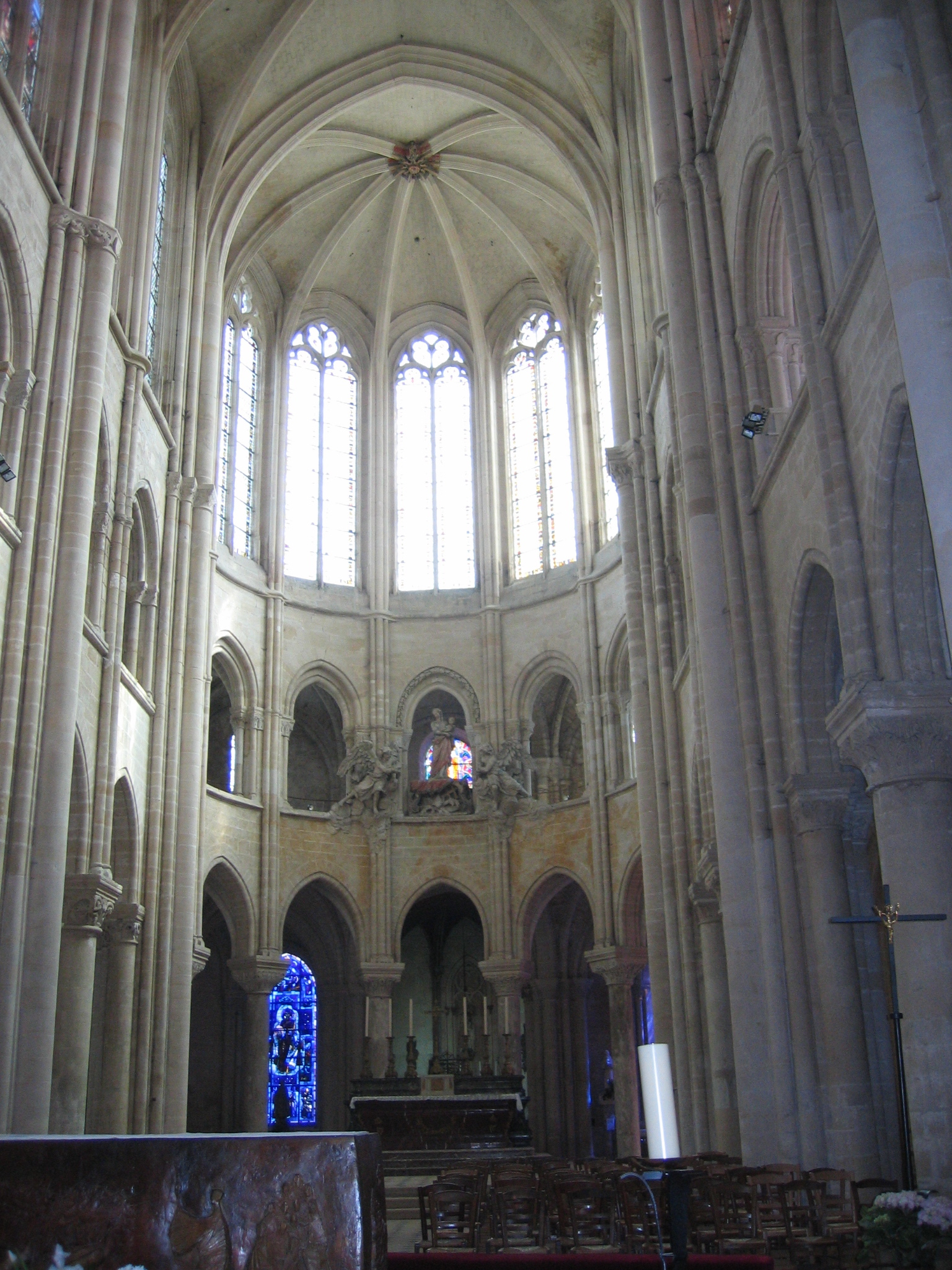 Senlis, cathedral Notre-Dame, choir.